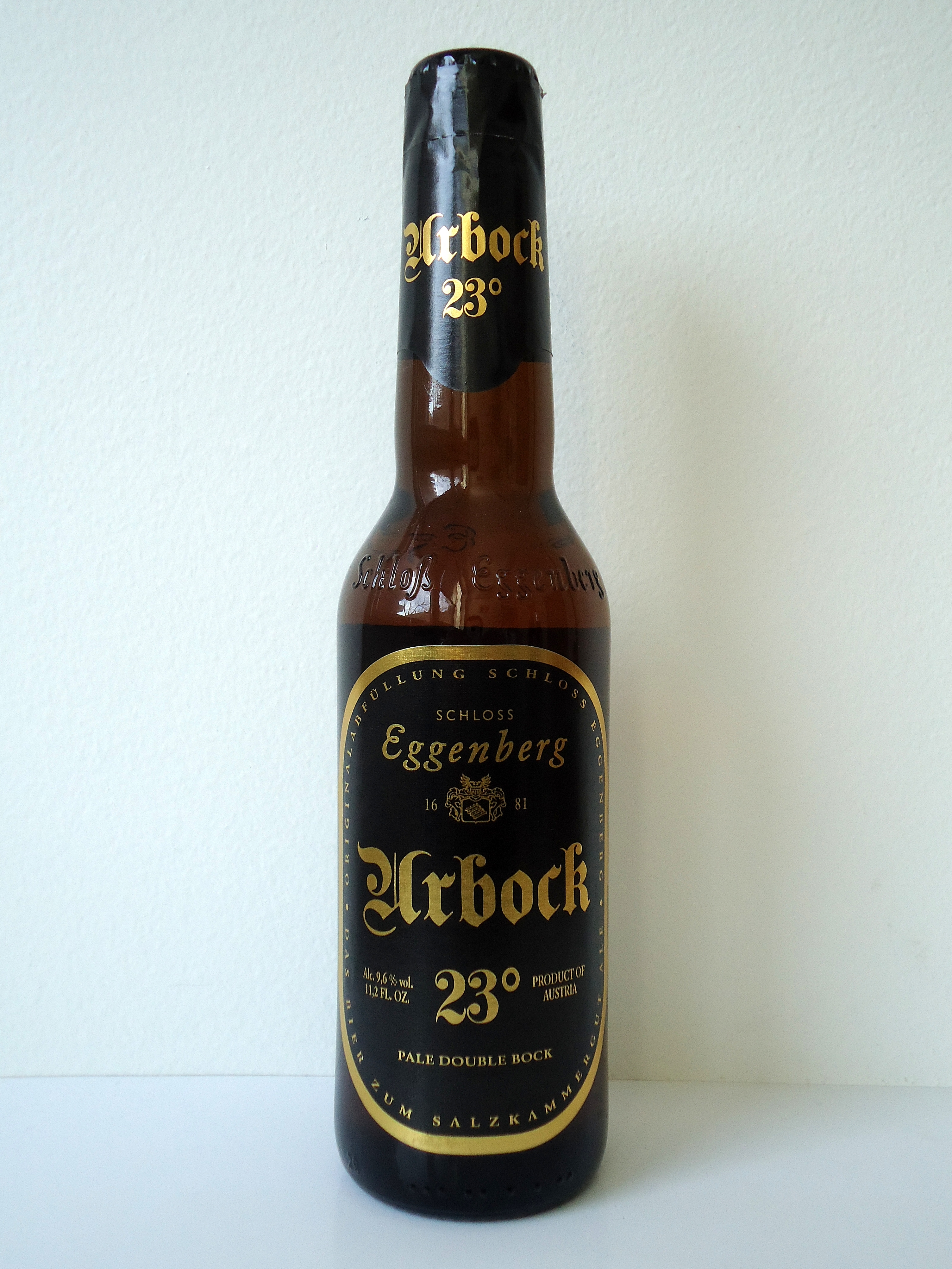 Schloss Eggenberg Urbock 23